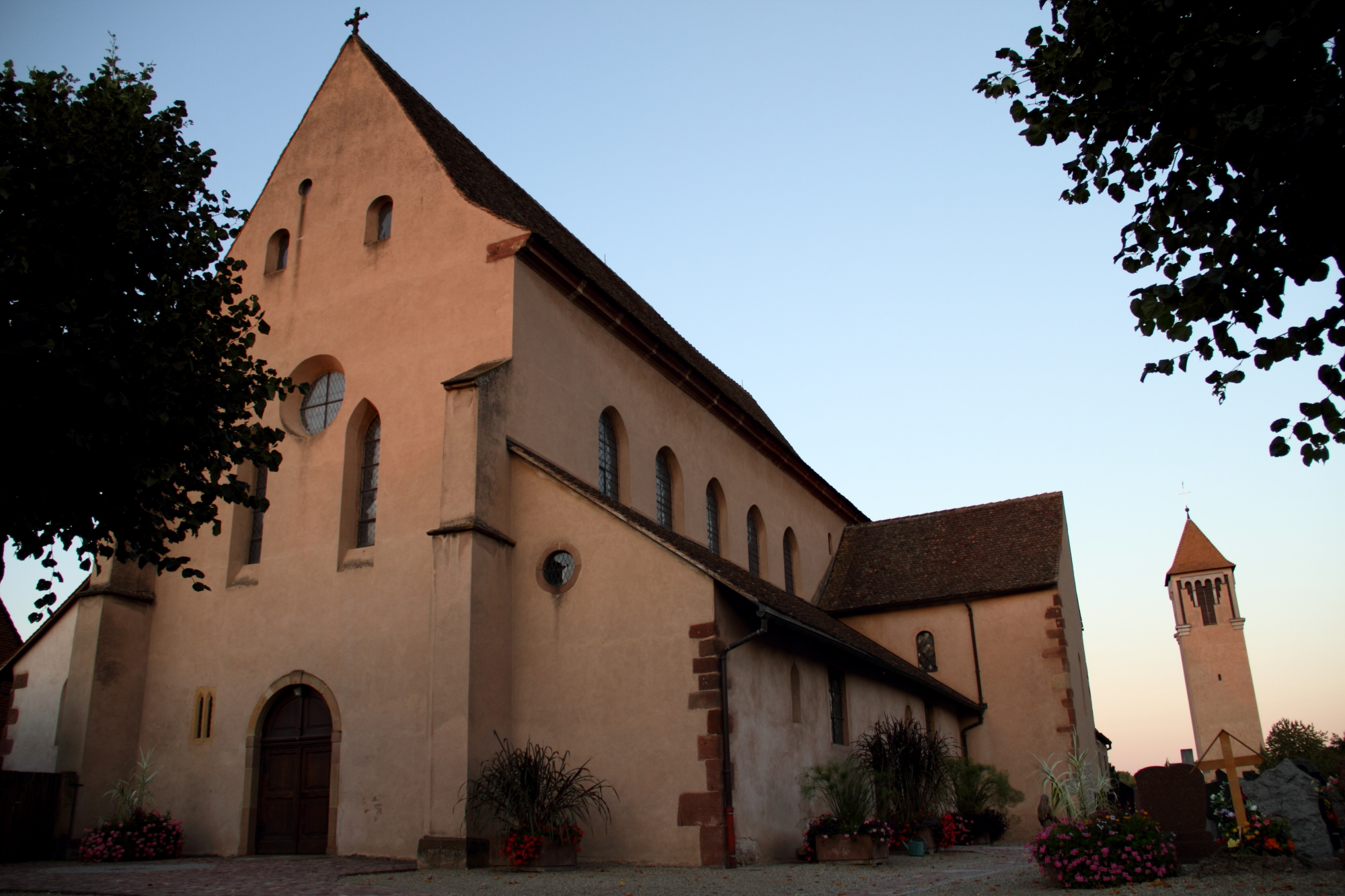 It is indexed in the Base Mérimée, a database of architectural heritage maintained by the French Ministry of Culture, under the references PA00084707 and IA00023089 .